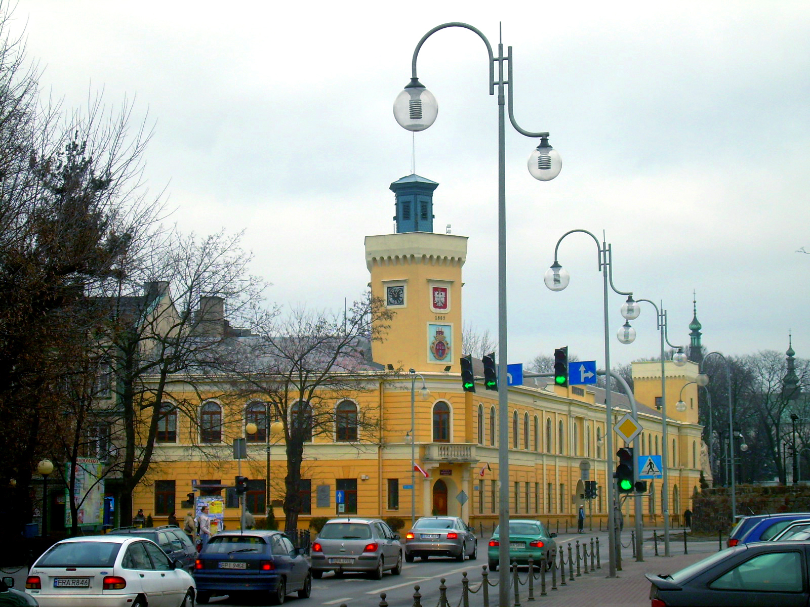 Building of the town hall in Radomsko (Poland), nowadays the City Museum.